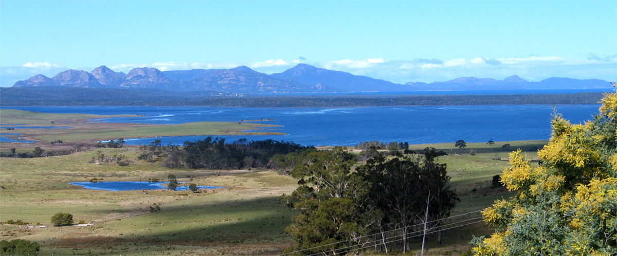 View over the Great Oyster Bay towards Freycinet peninsula, Tasmania, Australia